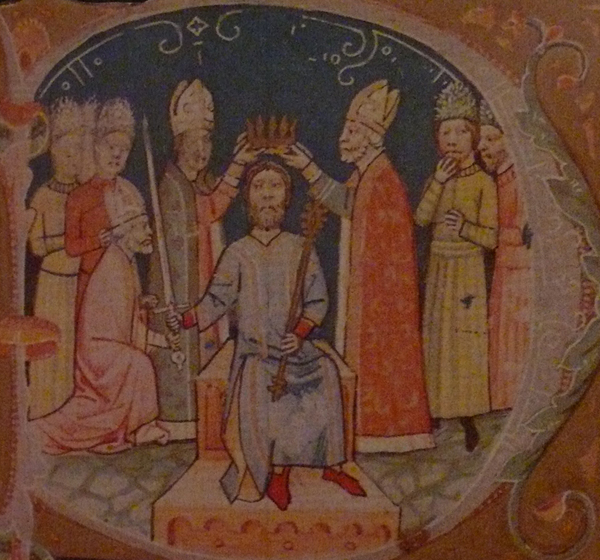 Andrew I of Hungary